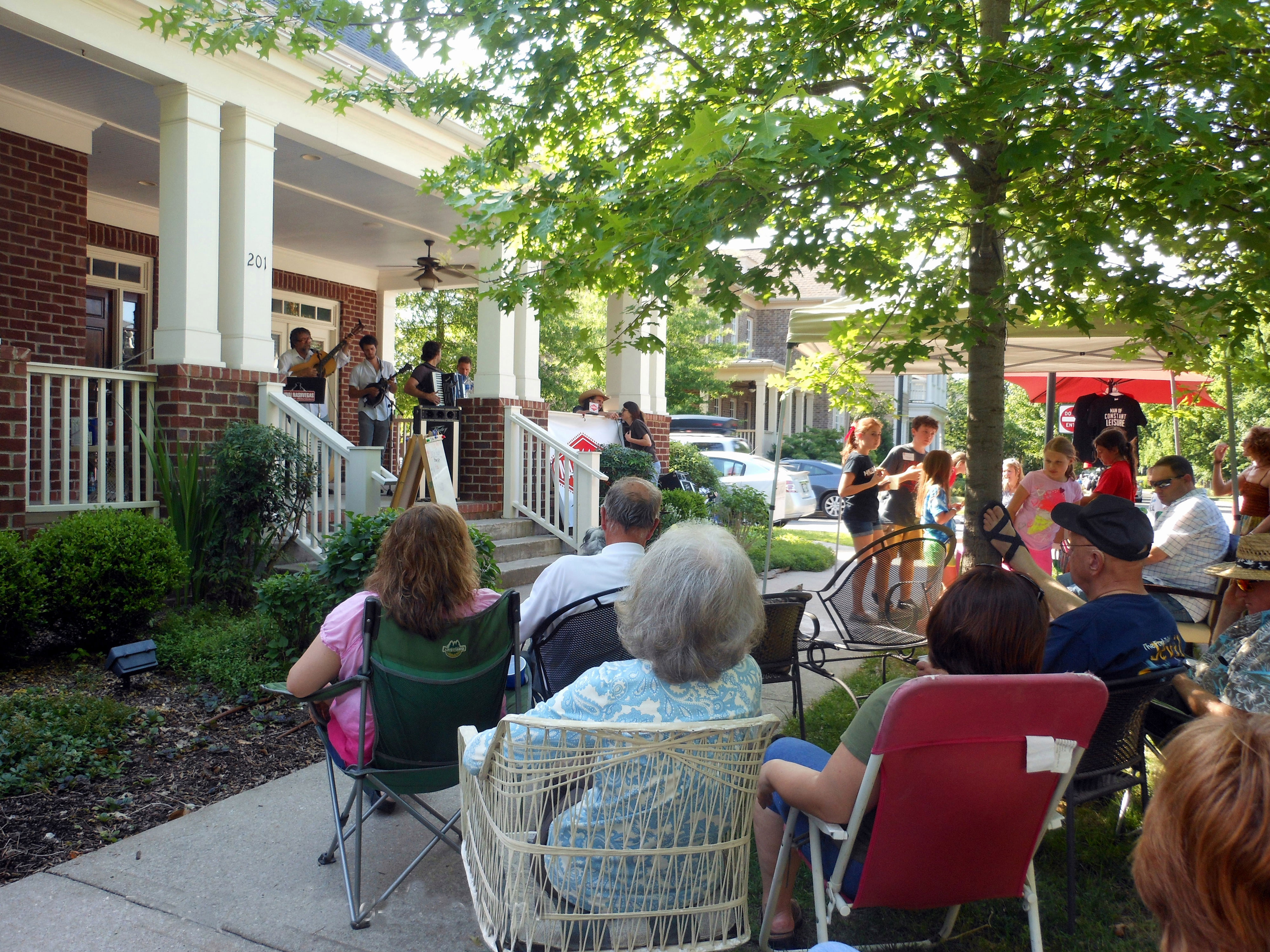 Friends and neighbors relax while enjoying the music of Franklin (Westhaven) Tennessee's annual porchfest event.